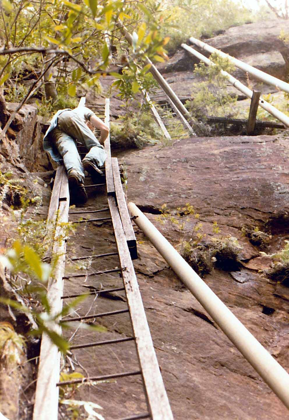 These ladders provided access to the dam in the gully above the cliffs, behind the wreck of the HMAS Parramatta. The dam provided water for the hospitals on Peat and Milson Islands, in the Hawkesbury River, N.S.W., Australia